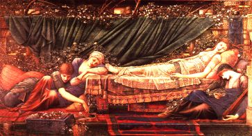 Sleeping Beauty by Sir Edward Burne-Jones (died in 1898), from the Briar Rose series 4